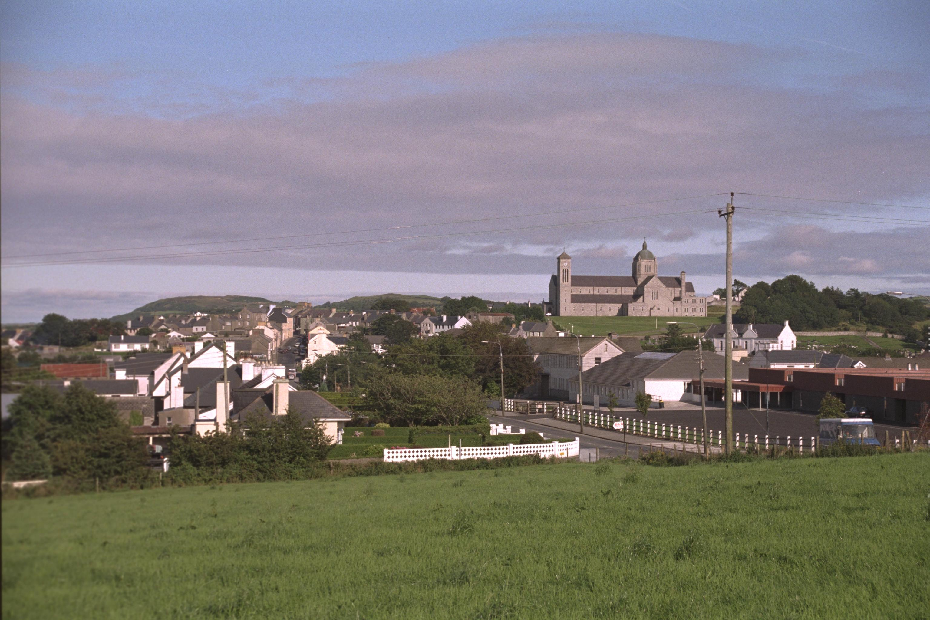 Carndonagh, County Donegal, Ireland South West View